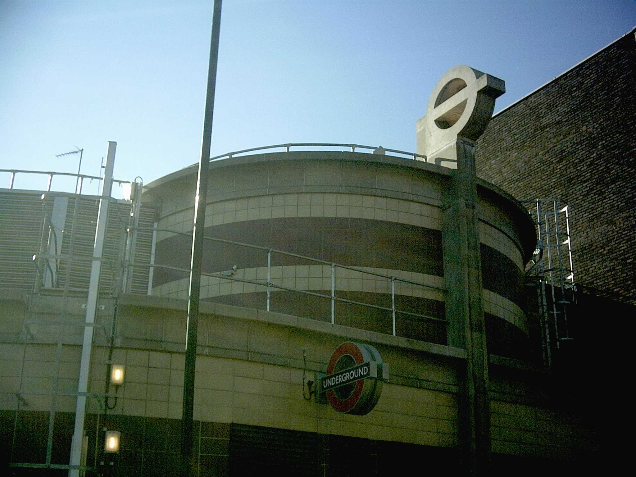 Upper part of Borough Station.